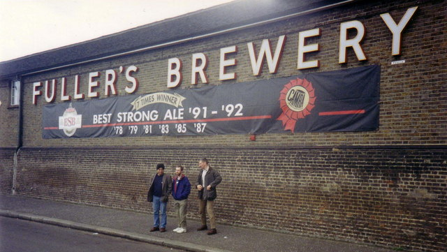 Fuller's Griffin Brewery, Chiswick The front of Fuller's Griffin Brewery, Chiswick Lane South, Chiswick, pictured in 1992.